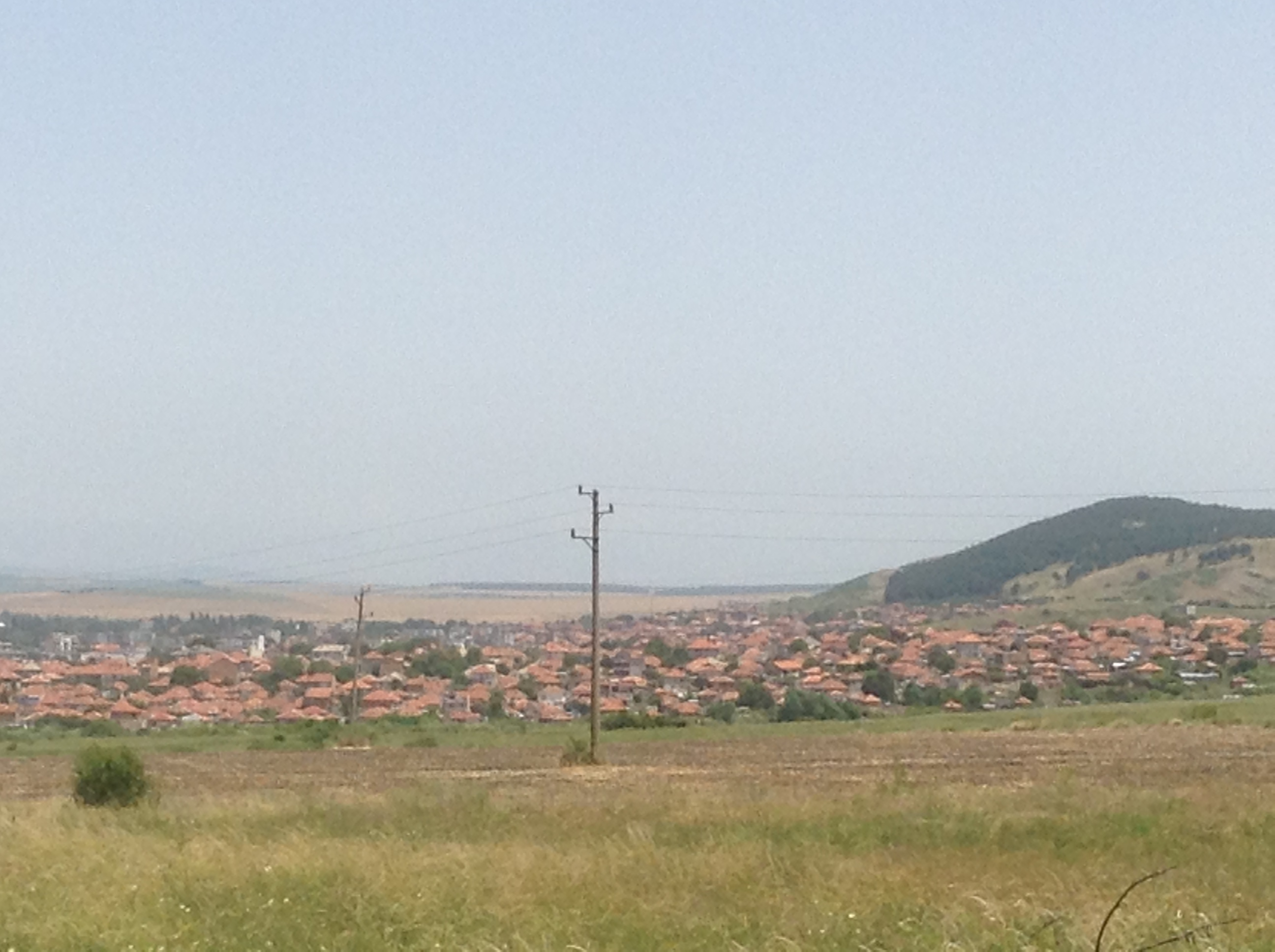 Karnobat, a view from southwest, 2016